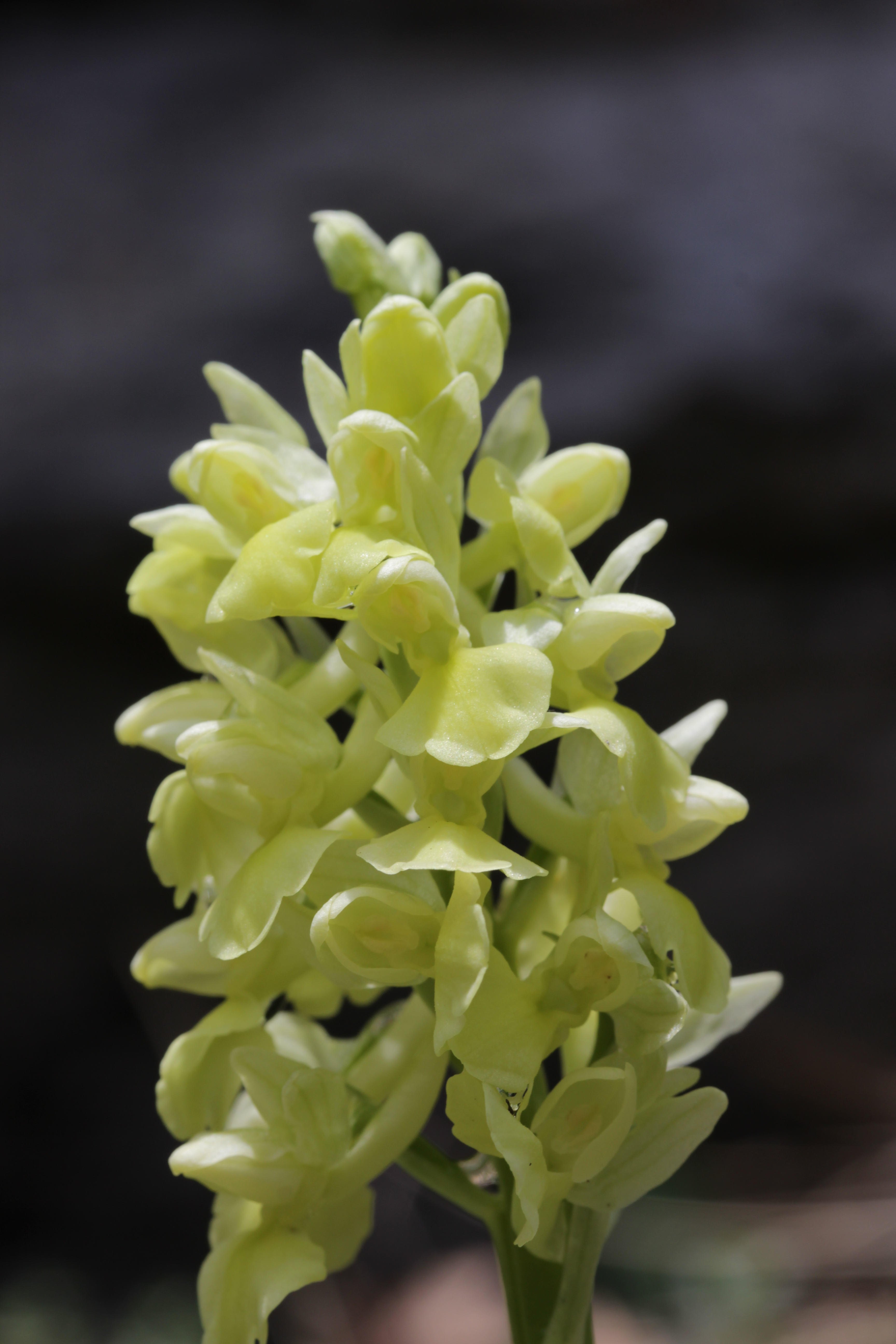 Pale Orchid - Orchis pallens